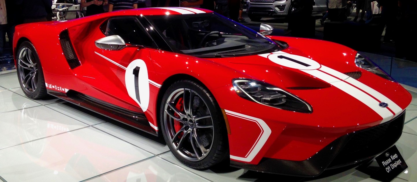 Ford GT 2018